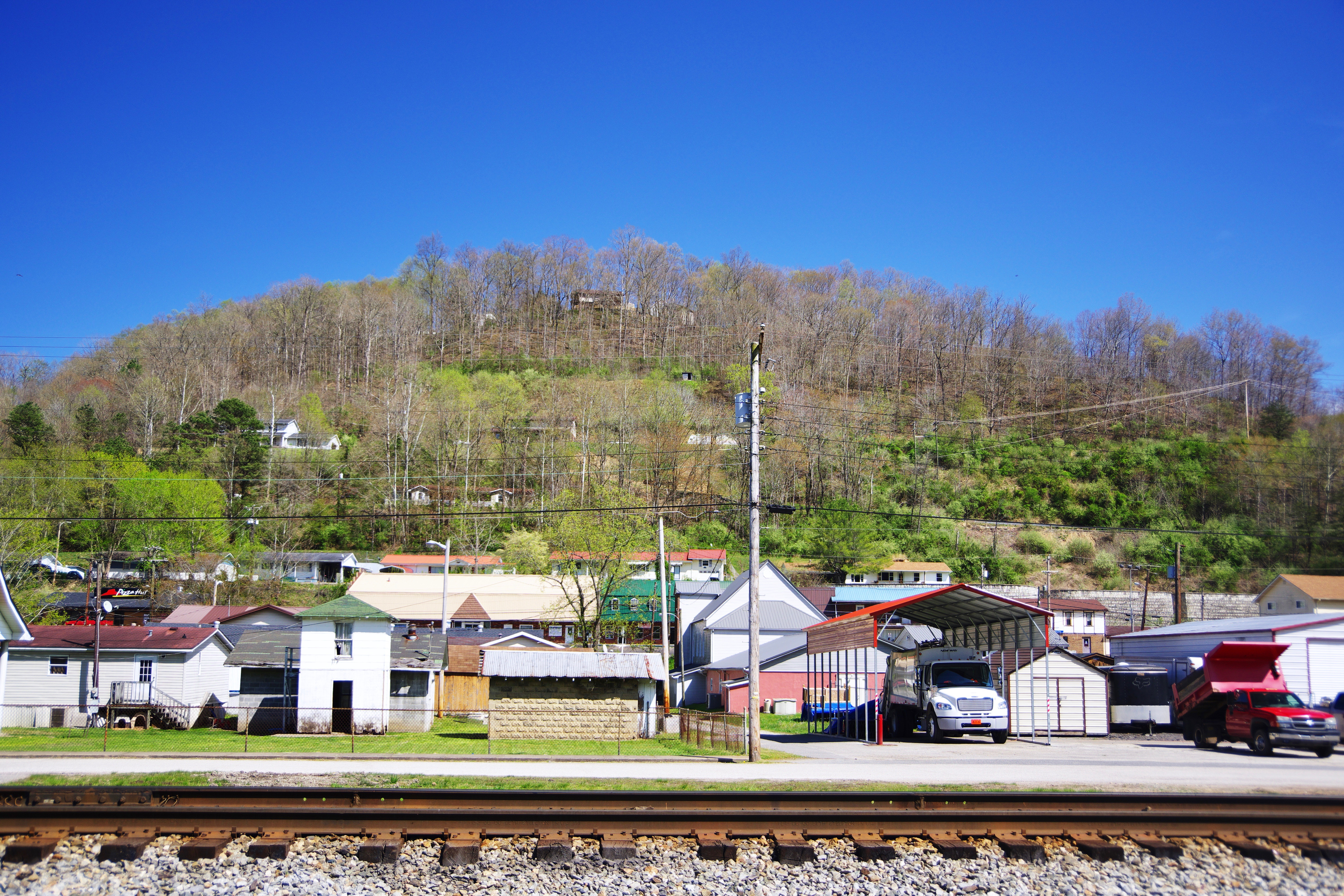 Chapmanville, West Virgnia, United States, viewed from Garnet Avenue.